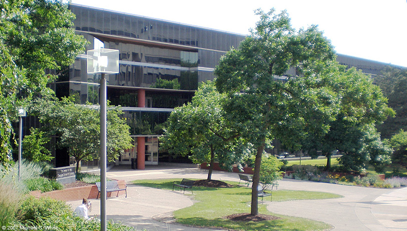 The Mervis Hall at the University of Pittsburgh. photo by Michael G White